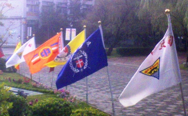 five chung school game in 2009